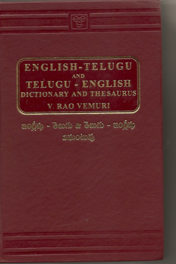 Cover page of English-Telugu & Telugu-English Dicitonary and Thesaurus